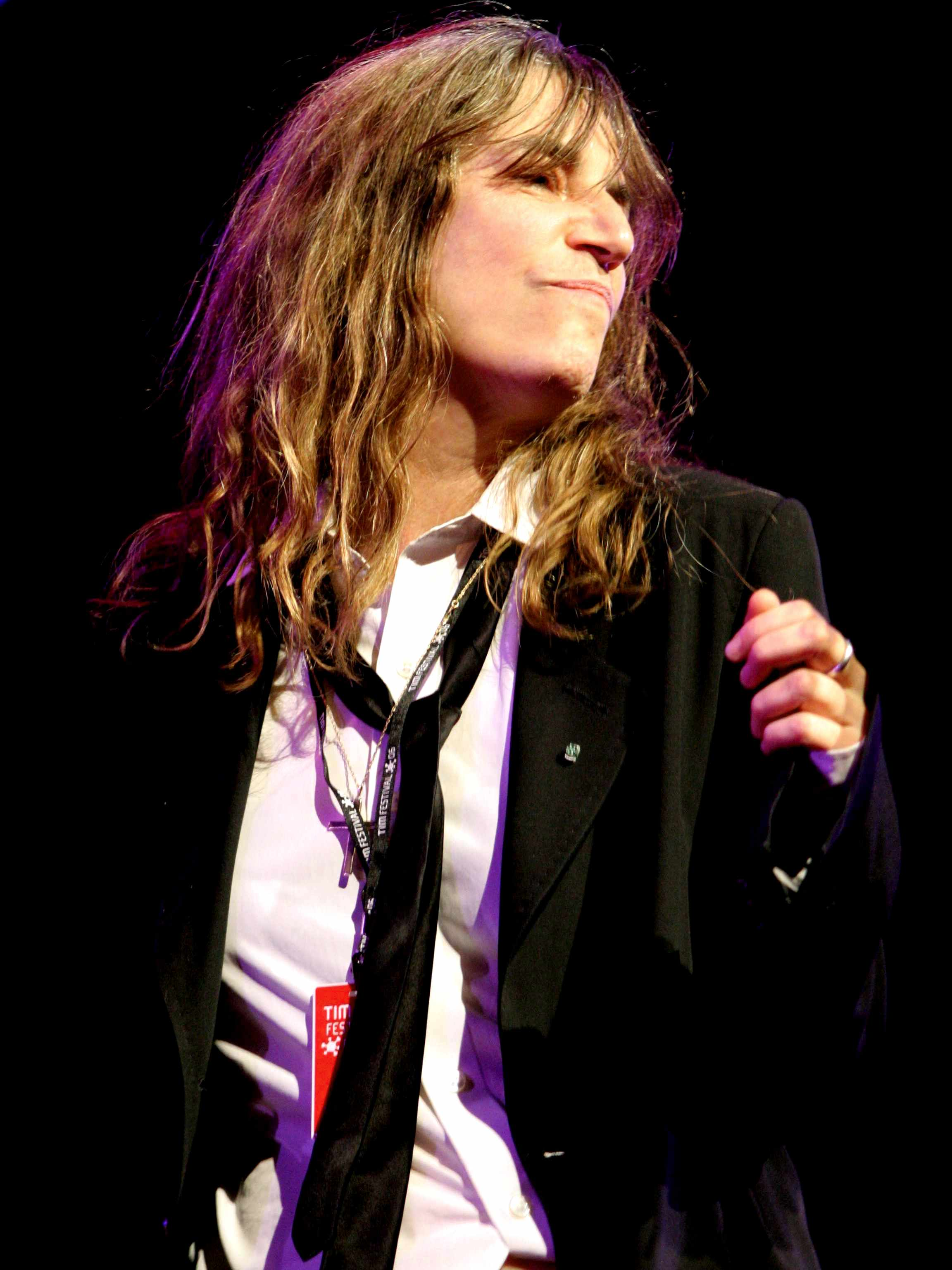 Patti Smith performing at TIM Festival, Marina da Glória, Rio de Janeiro, Brazil.